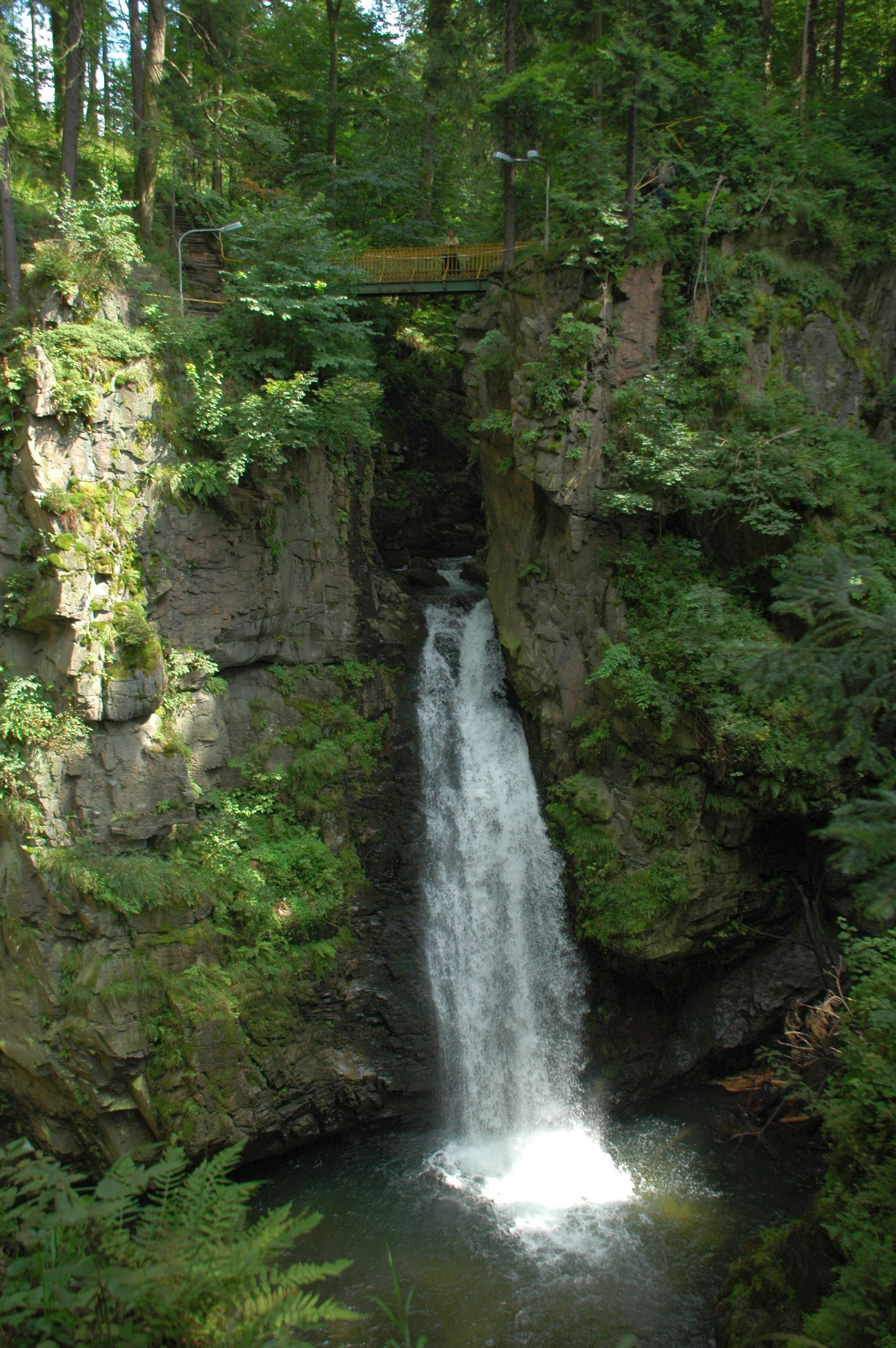 Poland - Miedzygórze, Waterfall of Wilczki in Śnieżnik Mountains, Sudetes